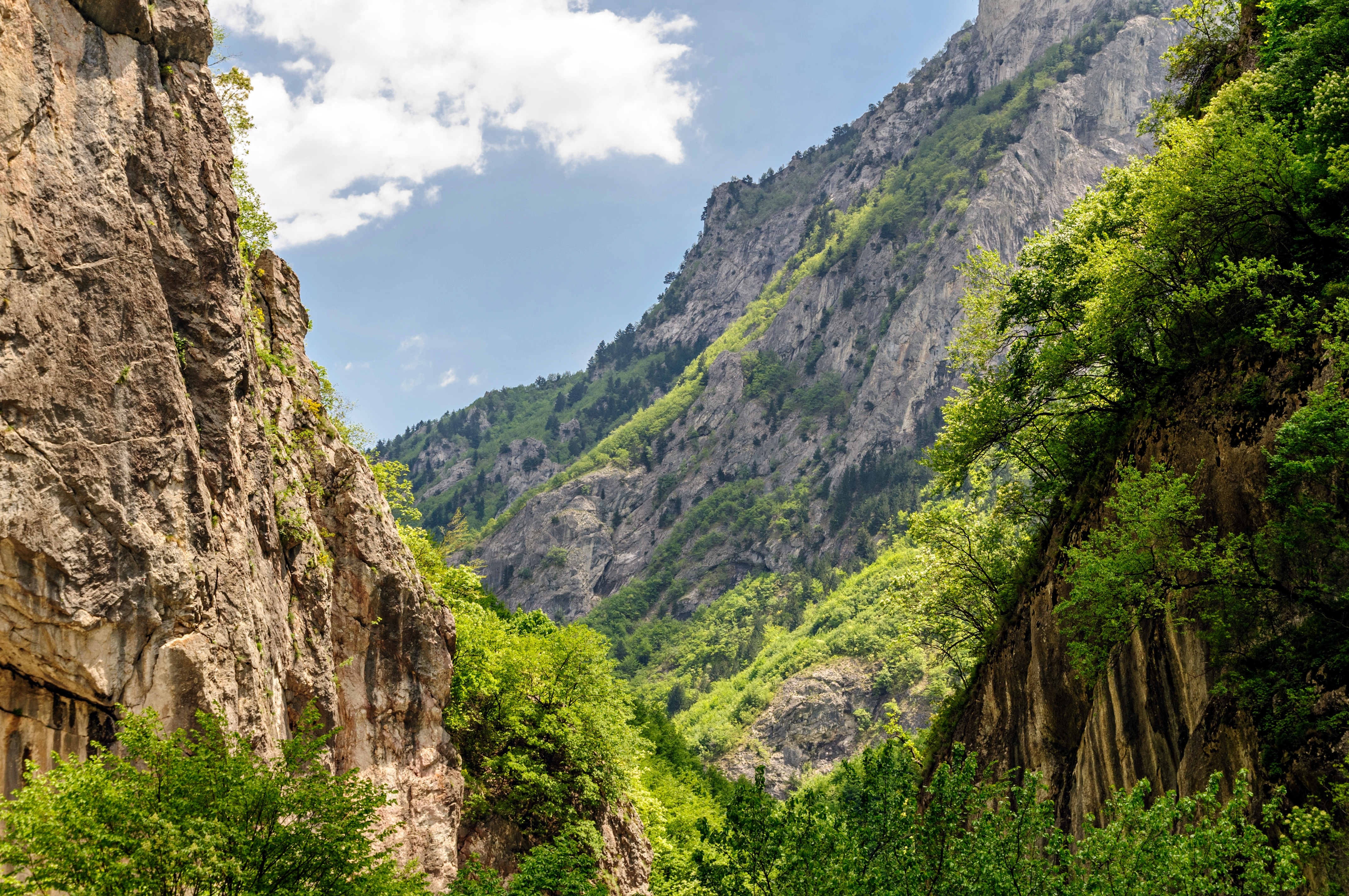 Is a 25 km (16 mi) long canyon in Kosovo. It is located in the "Cursed Mountains" close to the border with Montenegro. The city of Pejë is located at the entrance of the canyon. Rugova Canyon is one of the most popular tourist attractions in Kosovo.